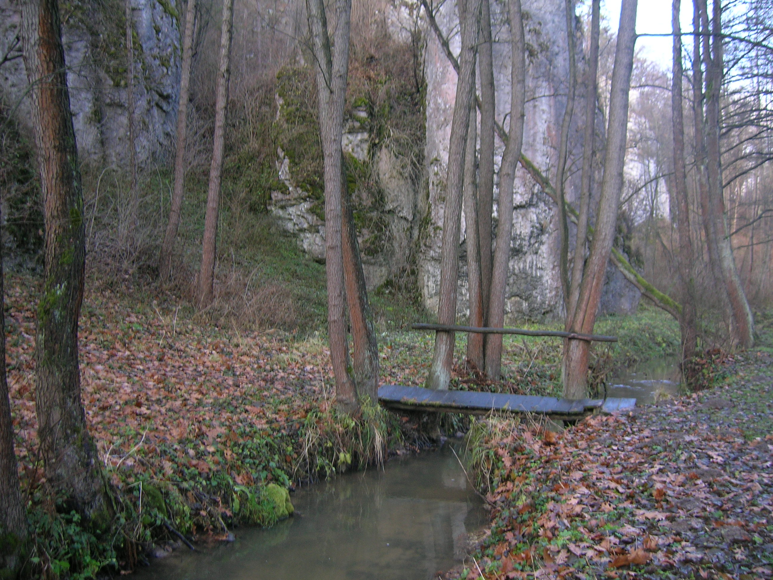 Potok Sanka.Dolina Mnikowska